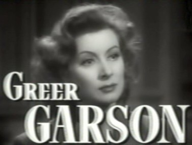 Cropped screenshot of Greer Garson from the trailer for the film Random Harvest